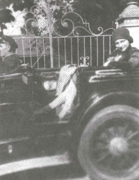 Judith Rosenbaum later Grunfeld. Judith Grunfeld born Judith Rosenbaum (December 18, 1902 – May 14, 1998) was a Hungarian born Jewish German teacher. She taught teachers in Poland and then led a Jewish school of girls, which was evacuated throughout the war to a small village. This pic may date from 1928 (guess). This is her fund raising - which she did from 1925 to 1929